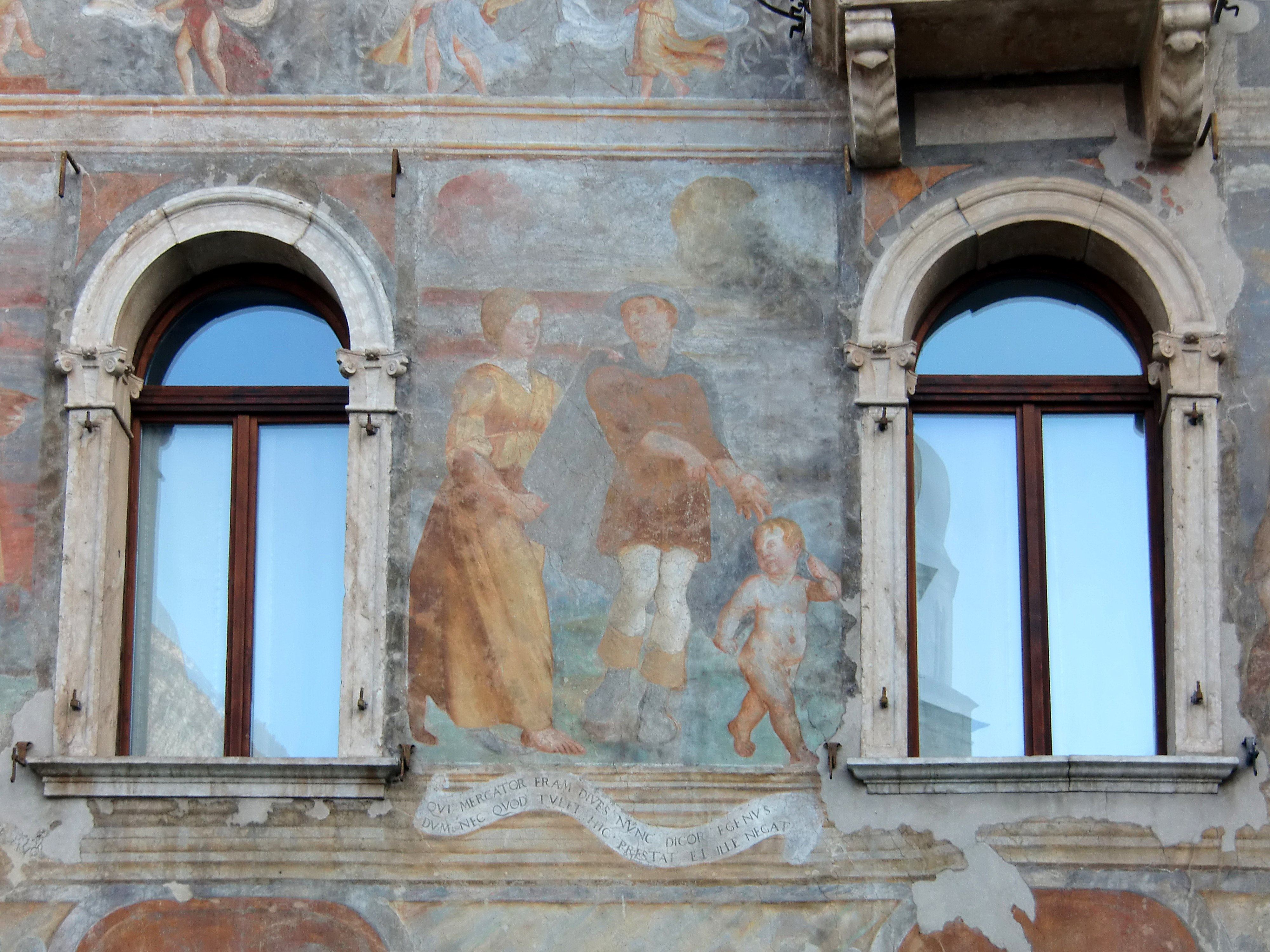 Cazuffi-Rella houses, Trento; detail of the frescoes in the facade